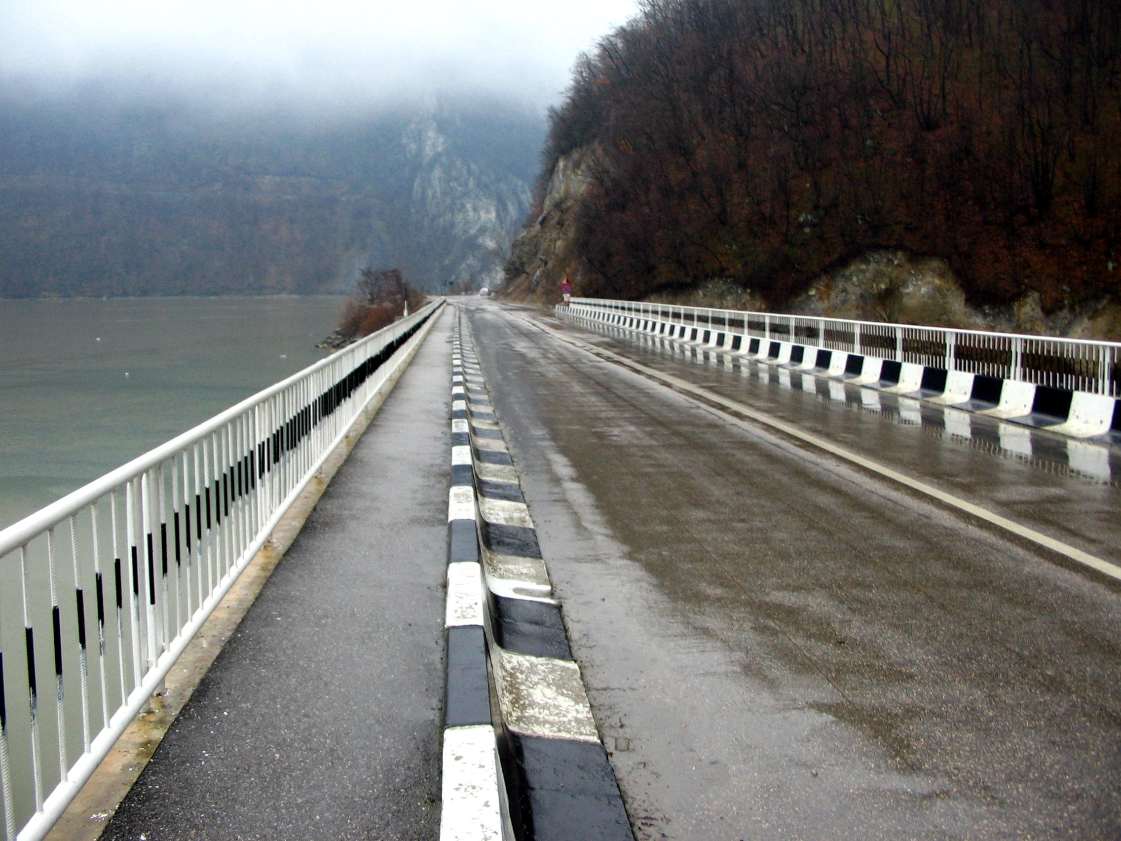 Romanian national road DN57 with the Danube river, near Dubova, Mehedinţi County, Romania.